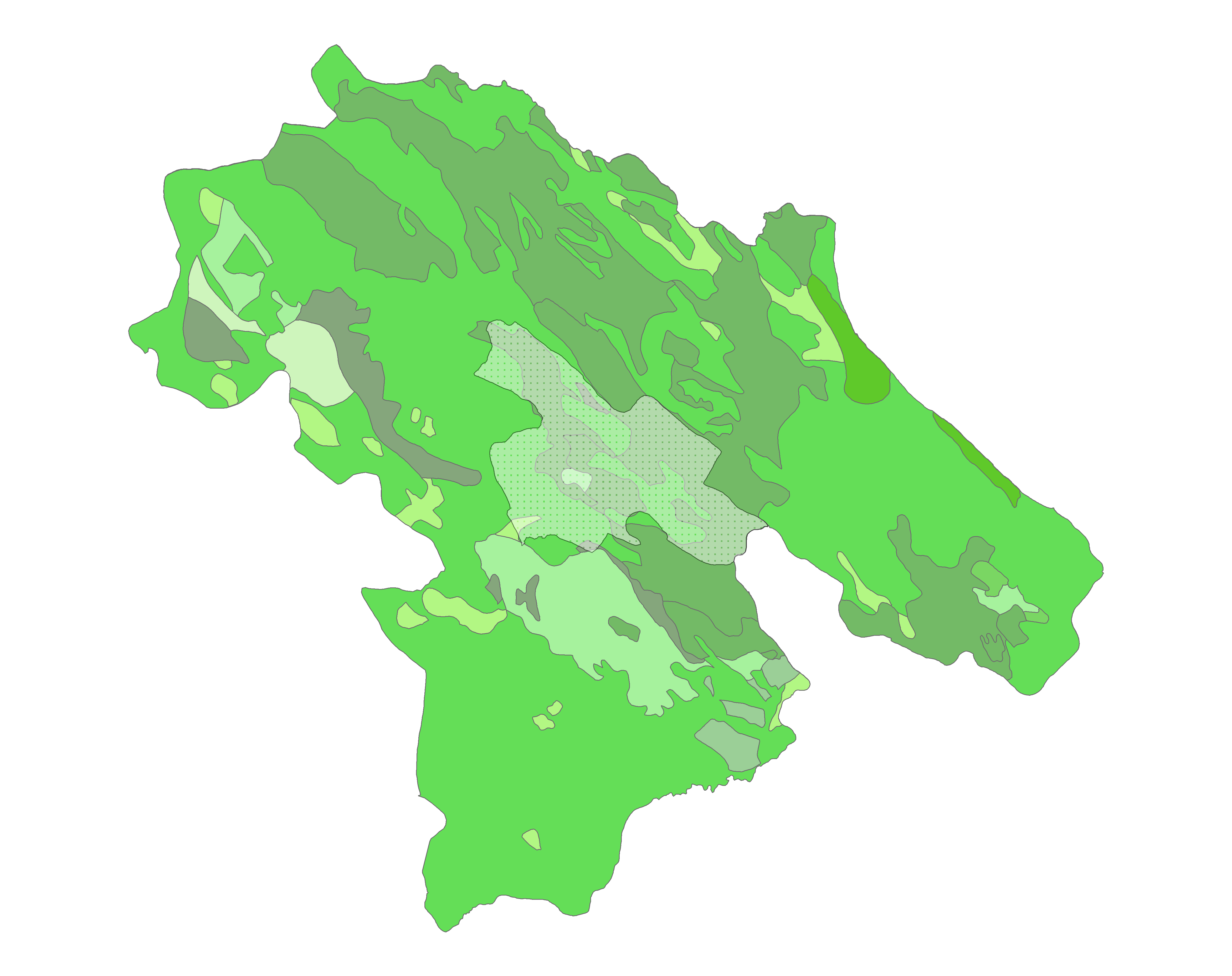 Forest of choram county Amygdalus spp Non Forest Acer monspessulanum - pistacia allan Amygdalus sp - quercus brantii Cerasus mahaleb - cotoneaster Juniperus excelsa Lonicera nummularia Quercus brantii Quercus brantii - pyrus sp Quercus brantii - juniperus excelsa Quercus brantii - pistacia altantica ziziphus spina christi